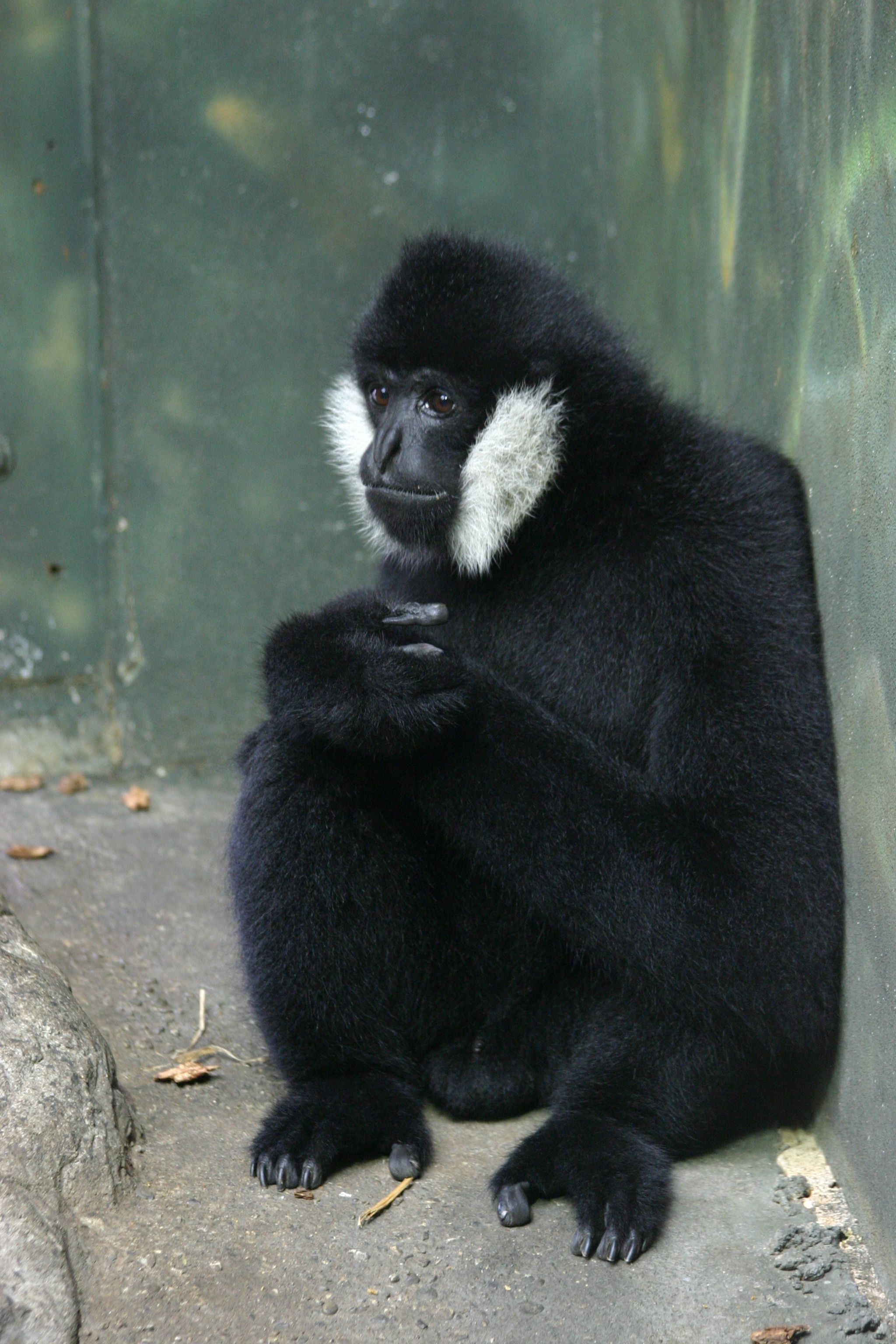 White-cheeked Crested Gibbon, Nomascus leucogenys, at the Lincoln Park Zoo in Chicago. Taken with a Canon Digital Rebel and a Canon 70-300/4-5.6 IS USM. ISO 800, 1/13s.